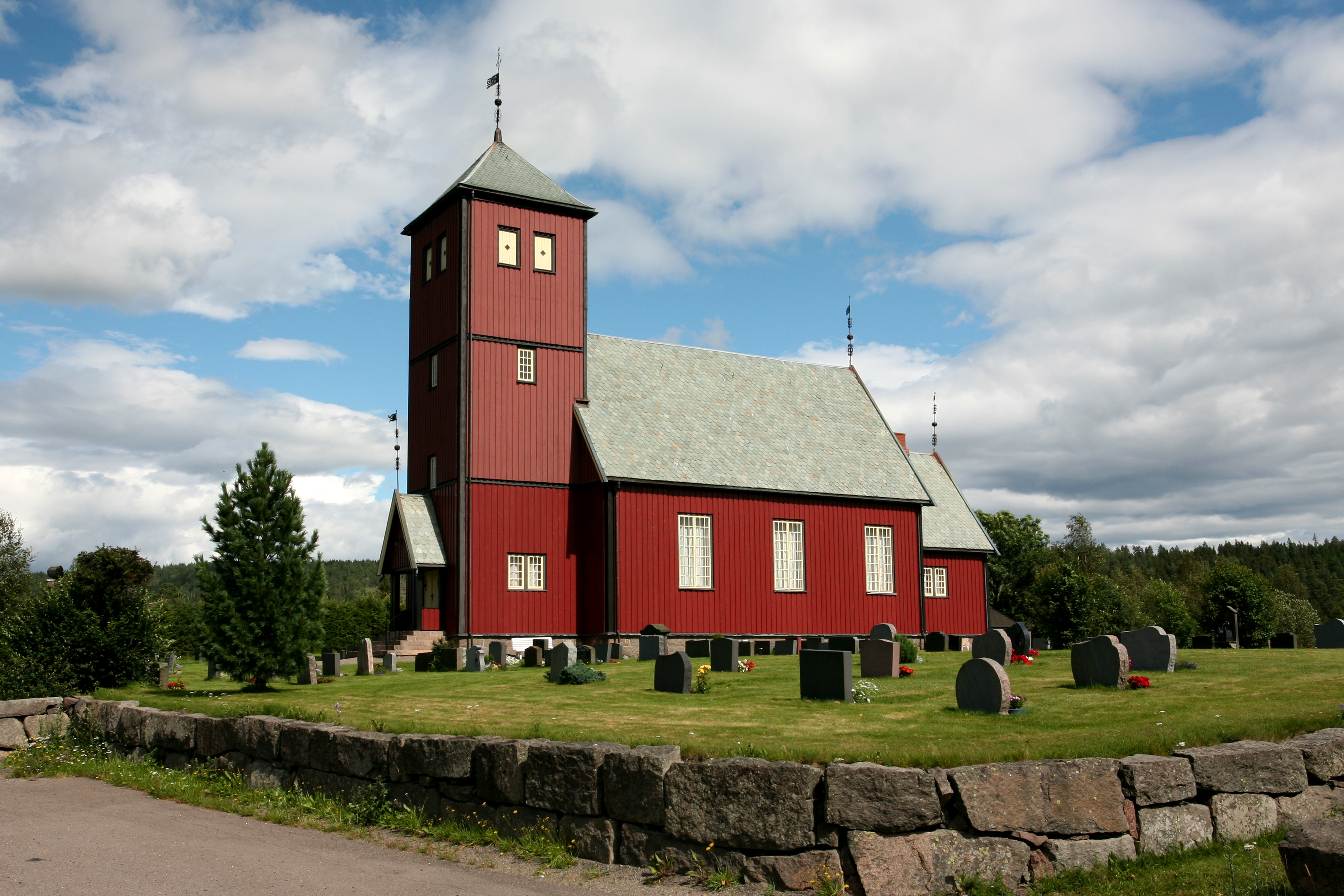 Picture of Vivestad kirke (Vestfold - Norway)